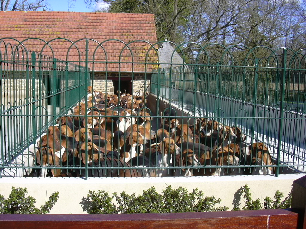 The français-tricolore pack in Bourbansais's zoo.